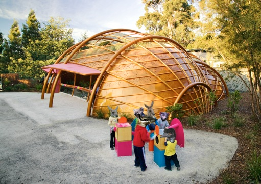 Overview of the Platapusary. Platypusary at Healesville sanctuary, also known as BHP Billiton Platypusary, was opened to the public on 12 May 2005.